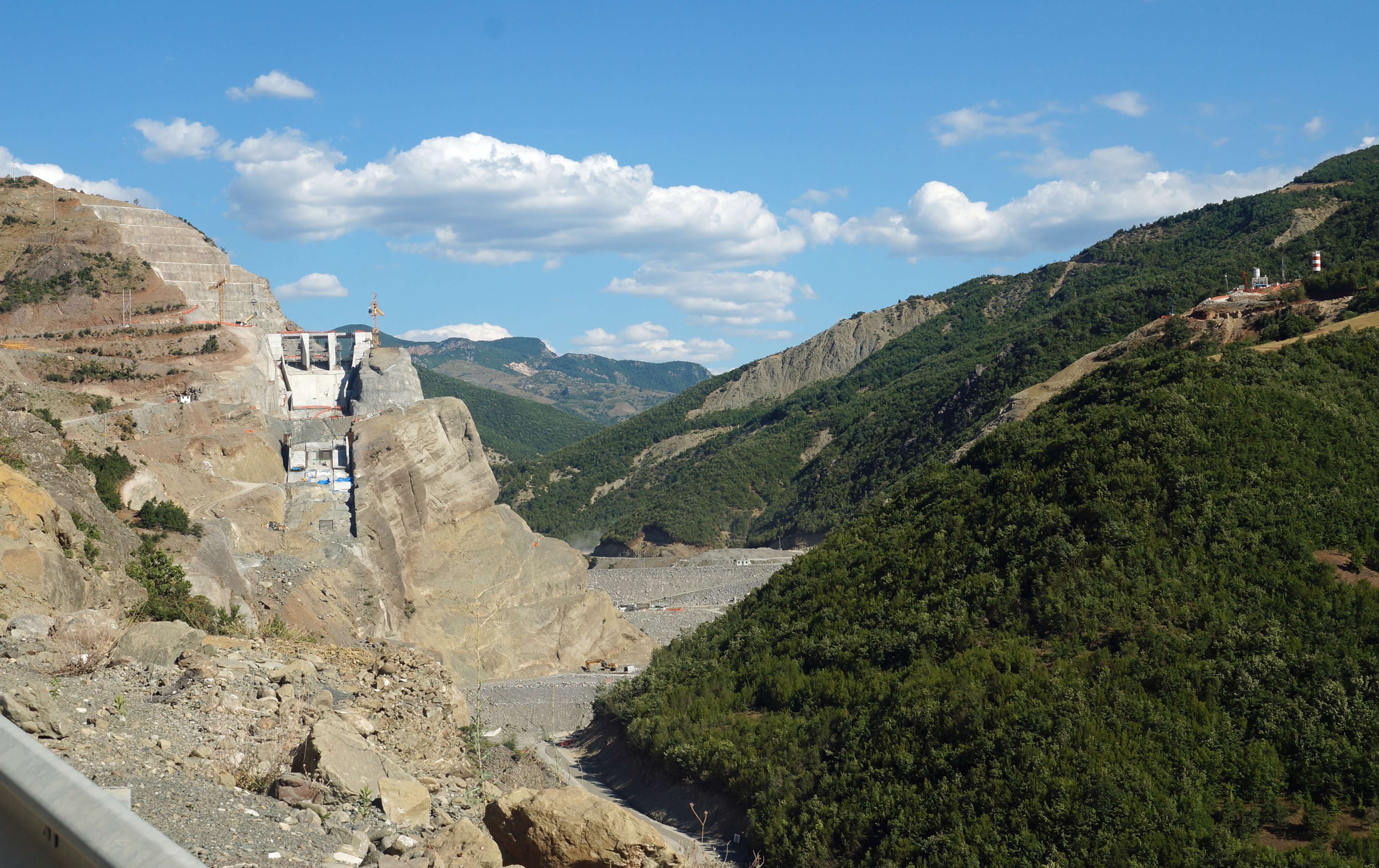 Construction of Moglica dam with a hight of about 150 meters in Southern Albania